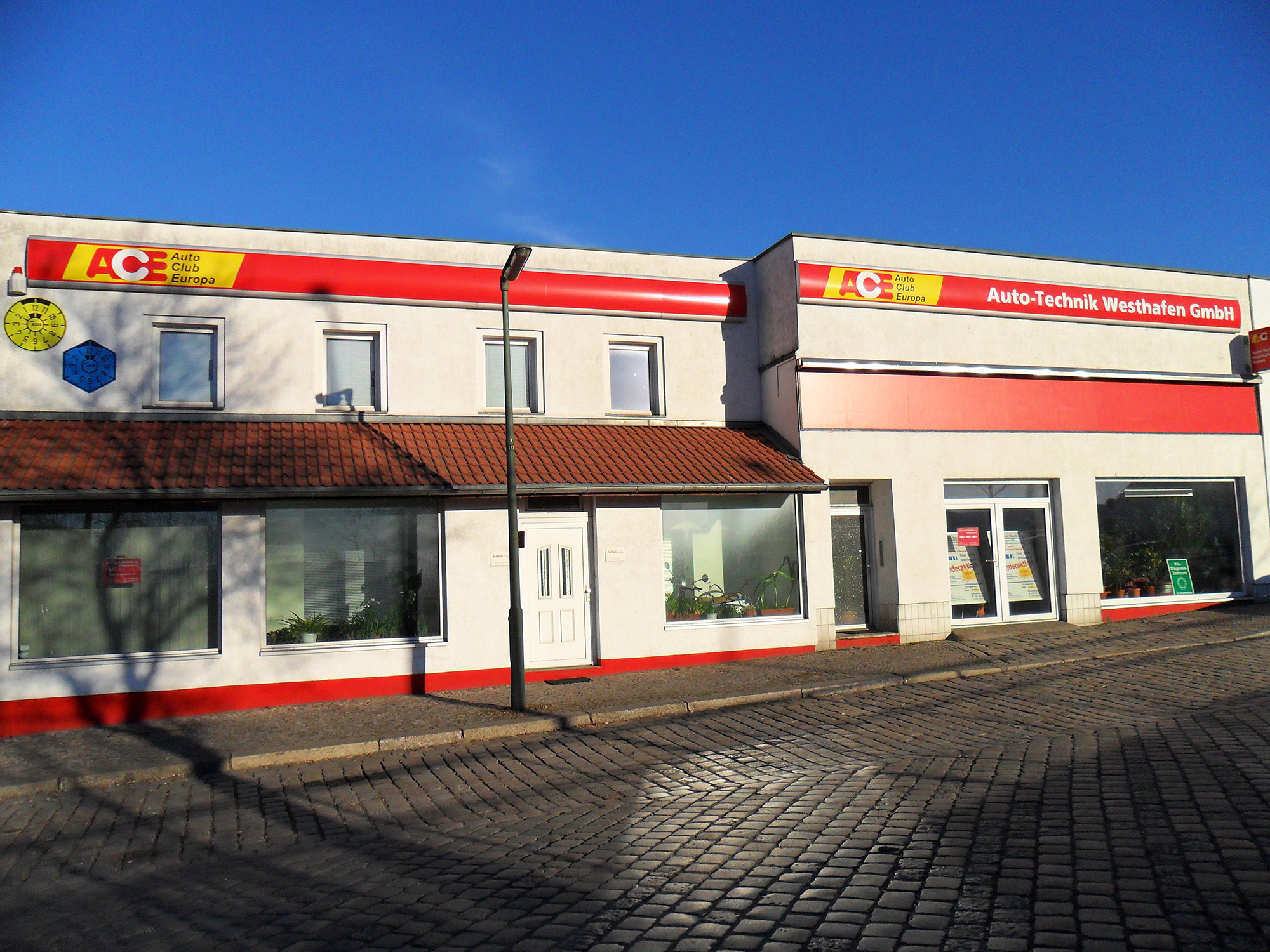 Auto Club Europa: Repair Shop at Westhafen (Berlin)